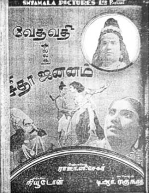 Advertising poster of 1941 Tamil language film Vedavathi or Seetha Jananam